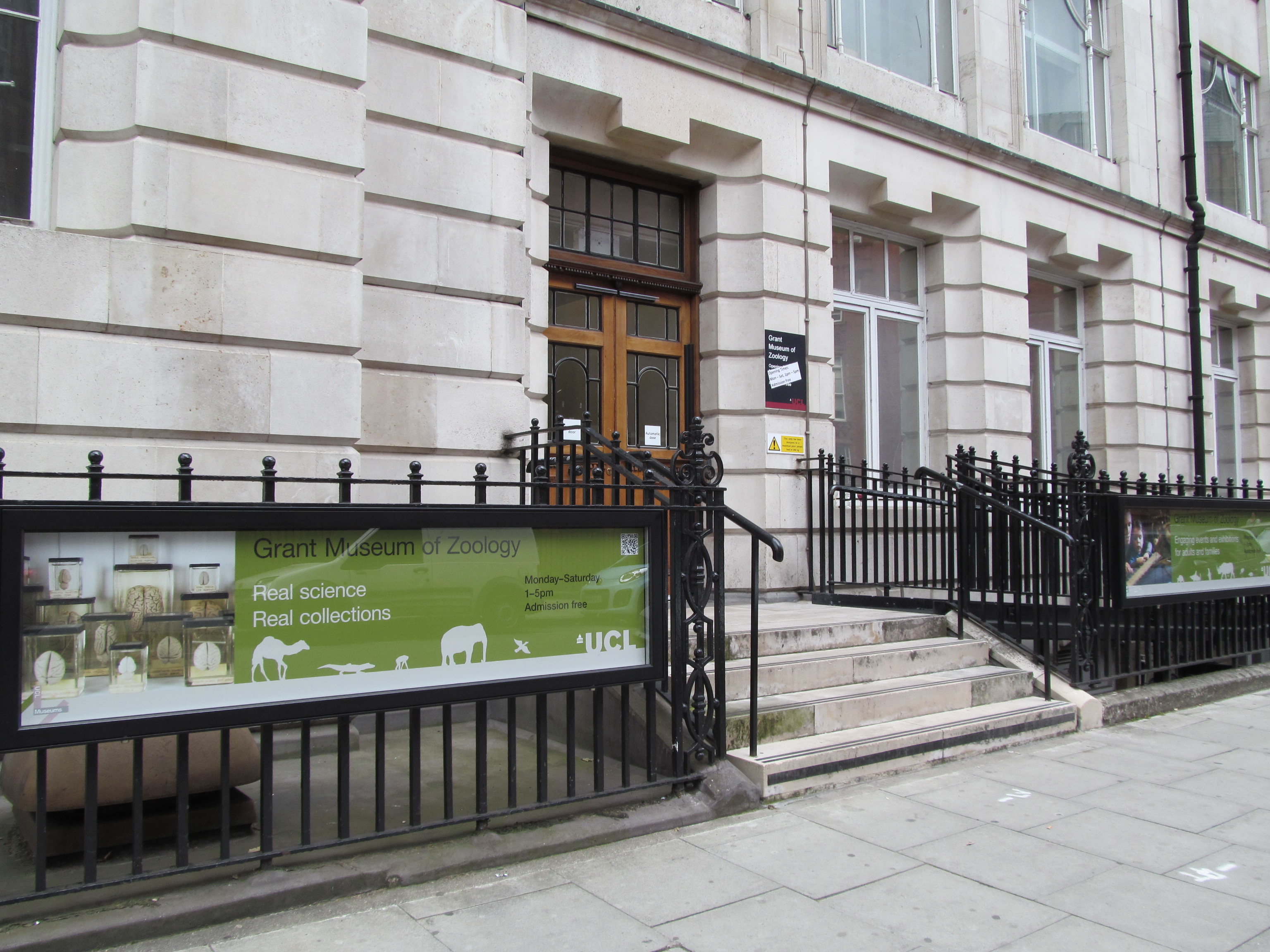 London 169 Grant Museum of Zoology